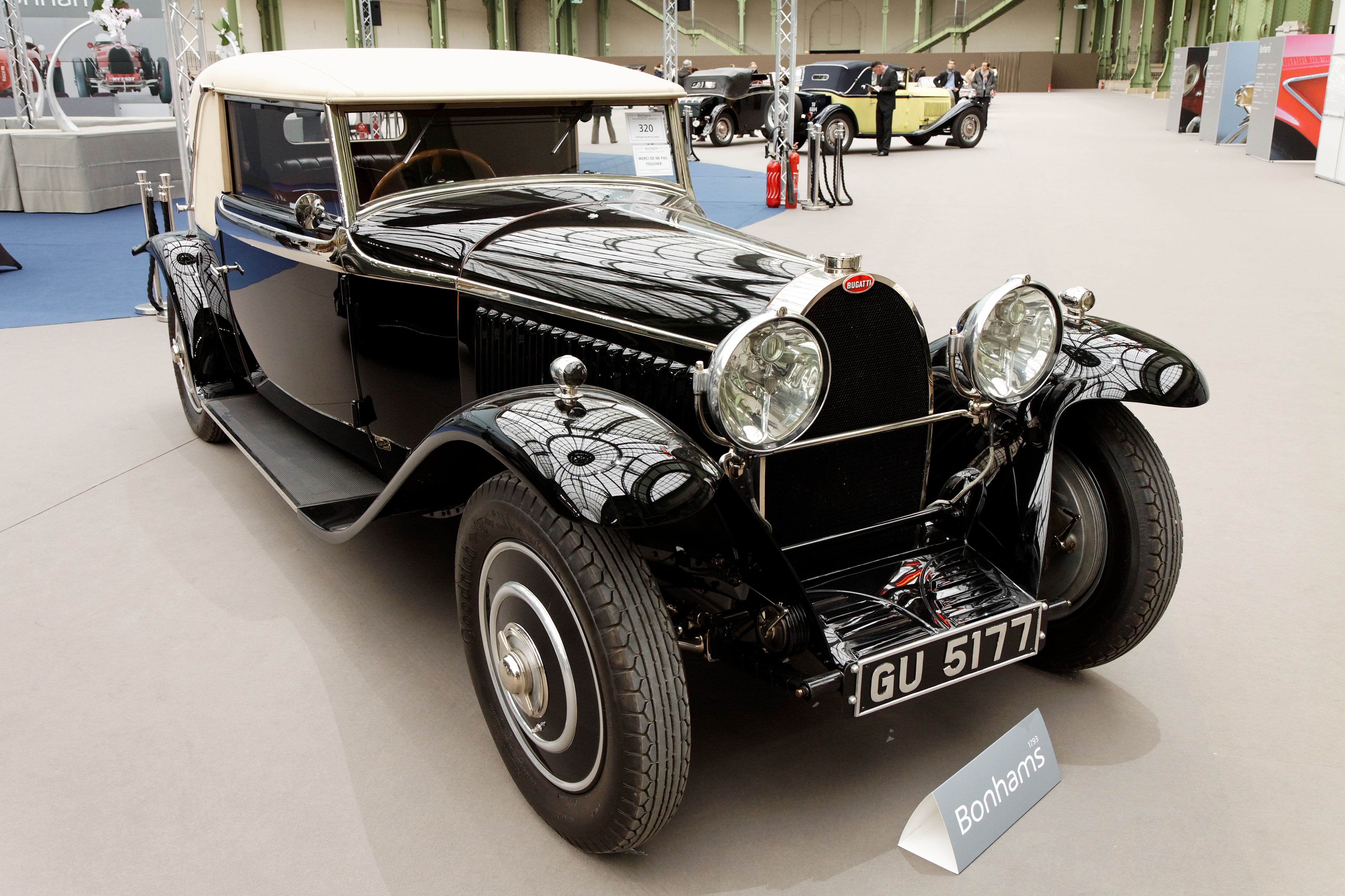 The making of this document was supported by Wikimédia France. (Submit your project!)